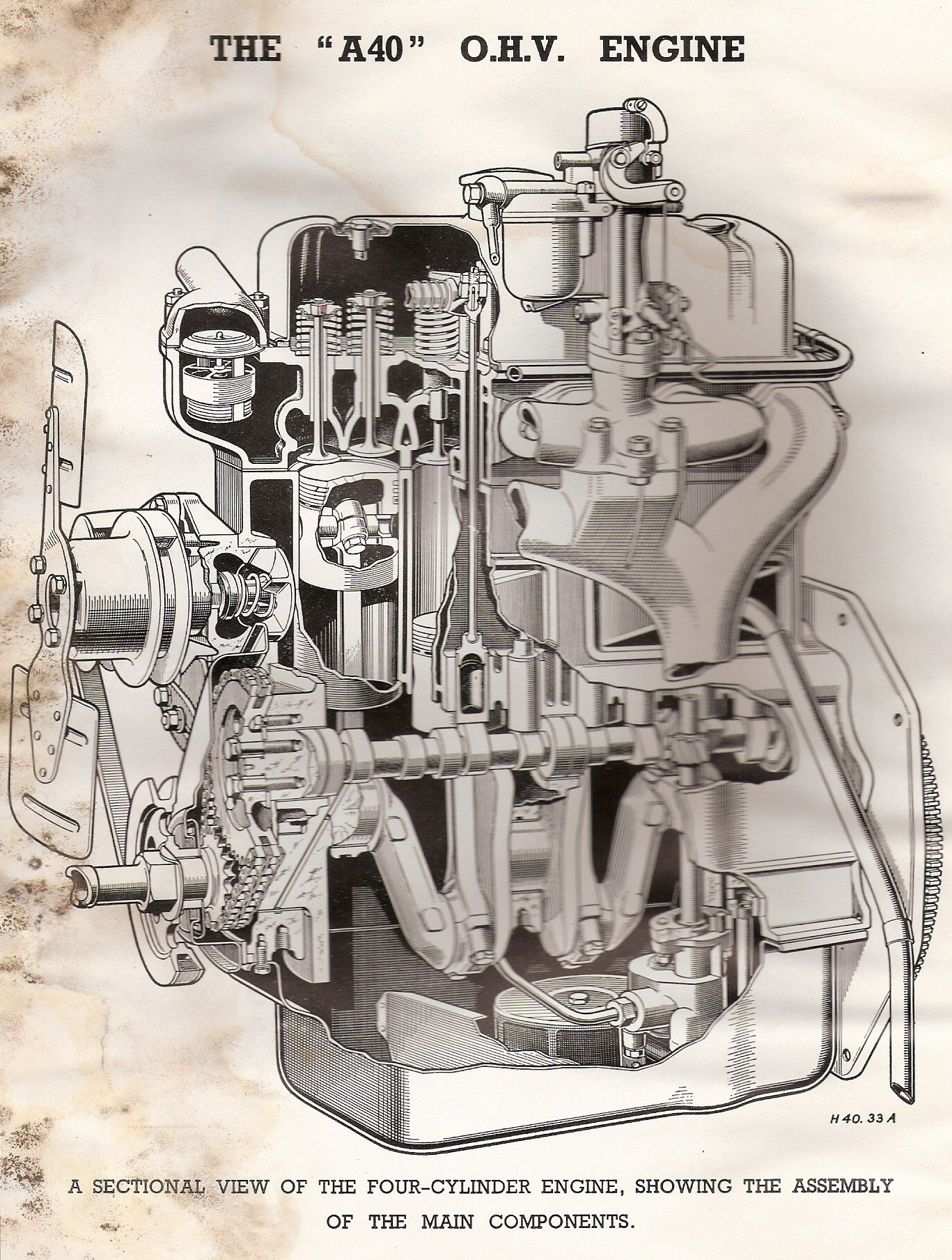 Austin A40 Engine - B-series four cylinder that in later form powered the MGA and MGB sports cars.